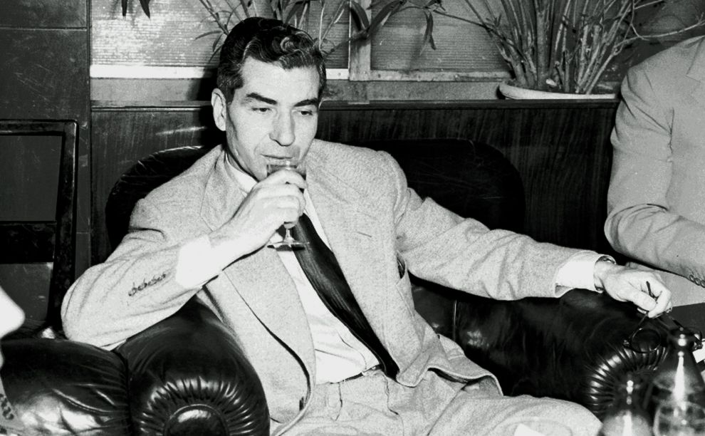 Charlie "Lucky" Luciano, an Italian mobster born in Sicily. Luciano is considered the father of modern organized crime in the United States for splitting New York City into five different Mafia crime families and the establishment of the first commission. He was the first official boss of the modern Genovese crime family (Excelsior Hotel, Rome).